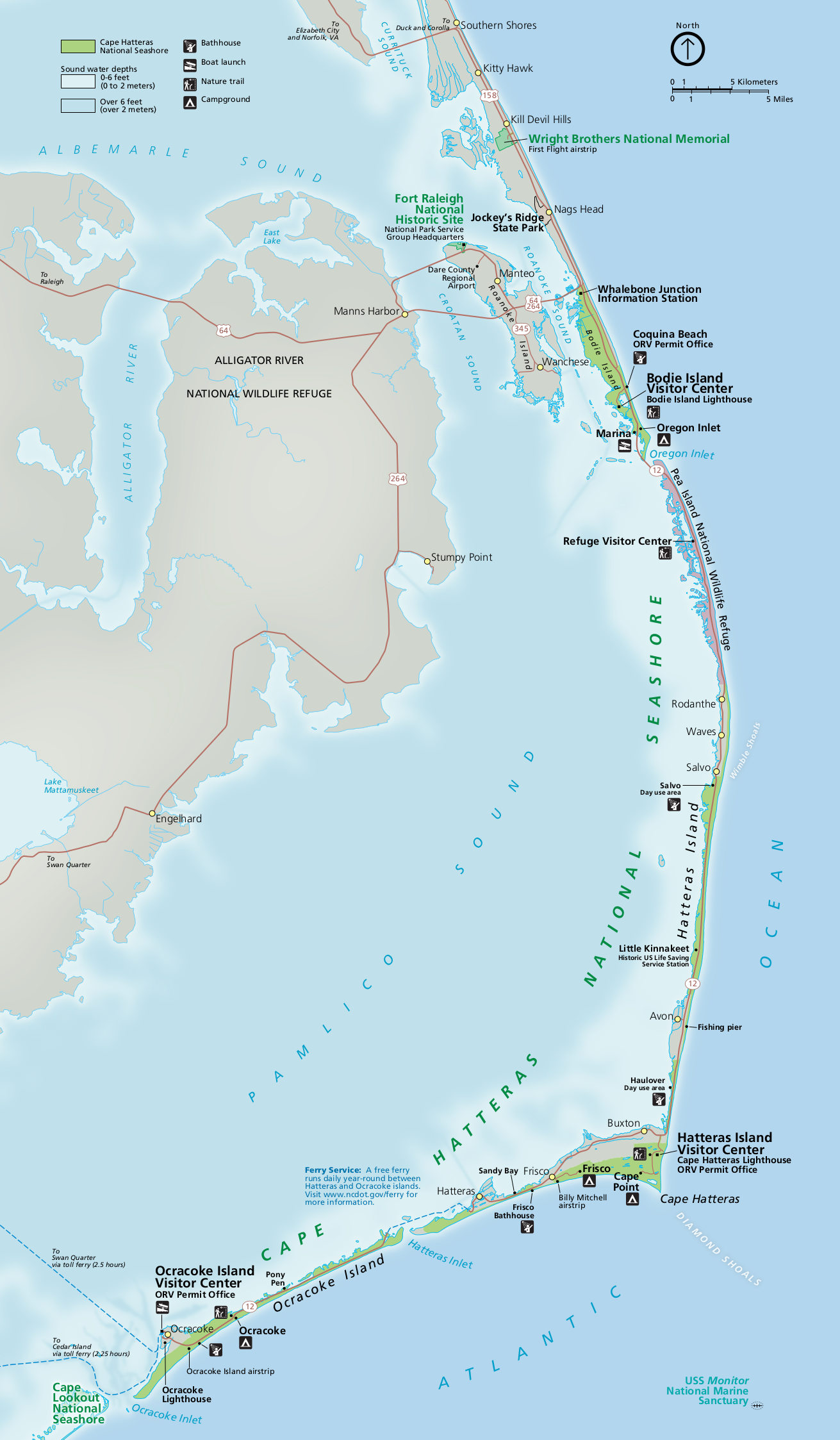 Cape Hatteras map from the brochure, ranging from Bodie Island to Hatteras Island and Ocracoke Island.